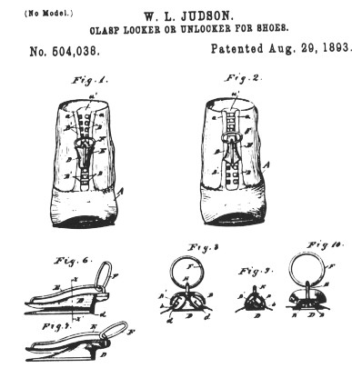 Whitcomb Judson "clasp locker" patent 1893 - precurser to the modern zipper.